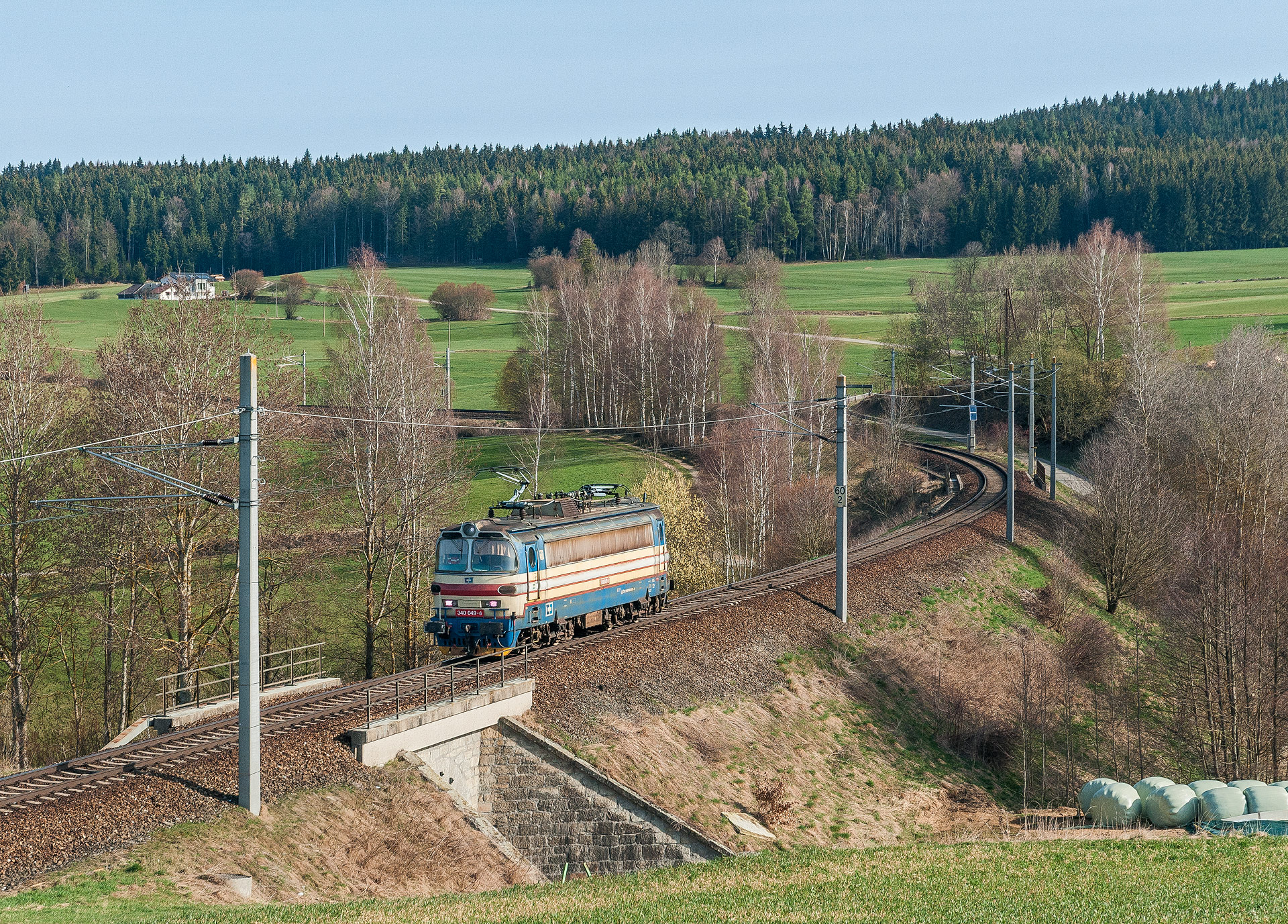 Czech multisystem locomotive 340.049 on track between Summerau and Horní Dvořiště, near czech-austrian border.